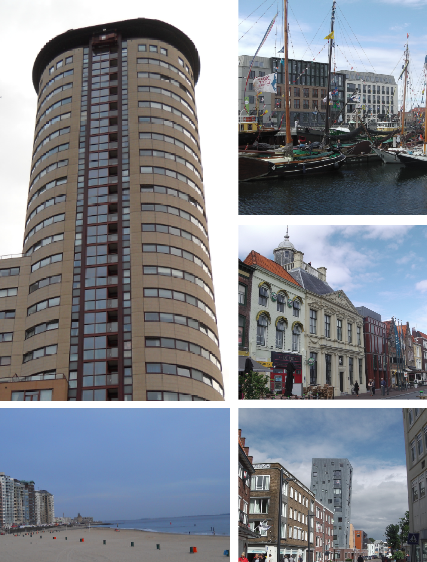 All photos are my own work